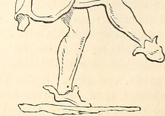 Identifier: dictionaryofgree00smit_1 Title: A dictionary of Greek and Roman antiquities.. Year: 1849 (1840s) Authors: Smith, William, 1813-1893 Subjects: Publisher: Boston Text Appearing Before Image: [...] SOCCUS, dim. SOCCULUS, was nearly if not altogether equivalent in meaning to Crepida, and denoted a slipper or low shoe, which did not fit closely, and was not fastened by any tie. (Isid.Orig. xix. 33.) Shoes of this description were worn, more especially among the Greeks together with the Pallium, both by men and by women. But those appropriated to the female sex were finer and more ornamented (Plin. H. N. ix. 35. s. 56 ;Soccus midiebris, Suet. Calig.b2, Vitell. 2), although those worn by men were likewise in some instances richly adorned according to the taste and means of the wearer. (Plaut. Bacch. ii. 3. 98.) Text Appearing After Image: [..] For the reasons mentioned under the articles Baxa and Crepida the Soccus was worn by comic actors (Hor. Ars Pott. 80, 90), and was inthis respect opposed to the Cothurnus. (Mart,viii. 3.13 ; Y\m.Epist. ix. 7.) The preceding wood-cut is taken from an ancient painting of a buffoon [Mimus], who is dancing in loose yellow slippers{luteum soccum, Catull. Epitlial. Jul. 10). This was one of their most common colours. (De LAul-naye, Salt. Theat. pi. iv.) [Solea.] [J. Y.] [...] Text edited. OCR manually cleaned up and text relating to adjacent items removed by User:PKM.